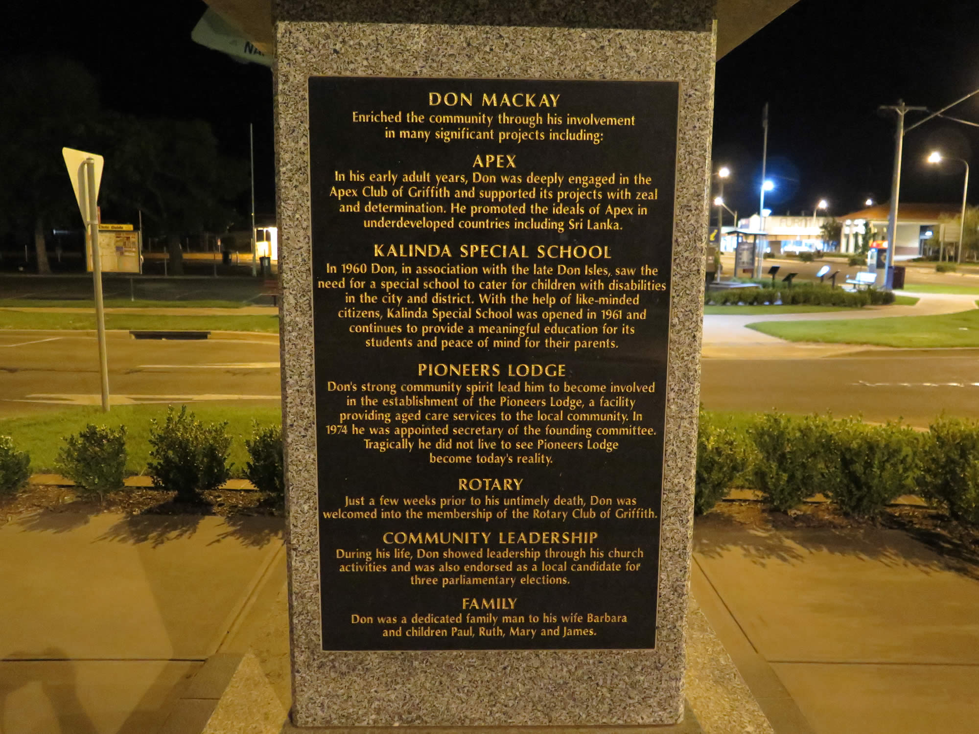 A photograph of the Donald Mackay memorial.